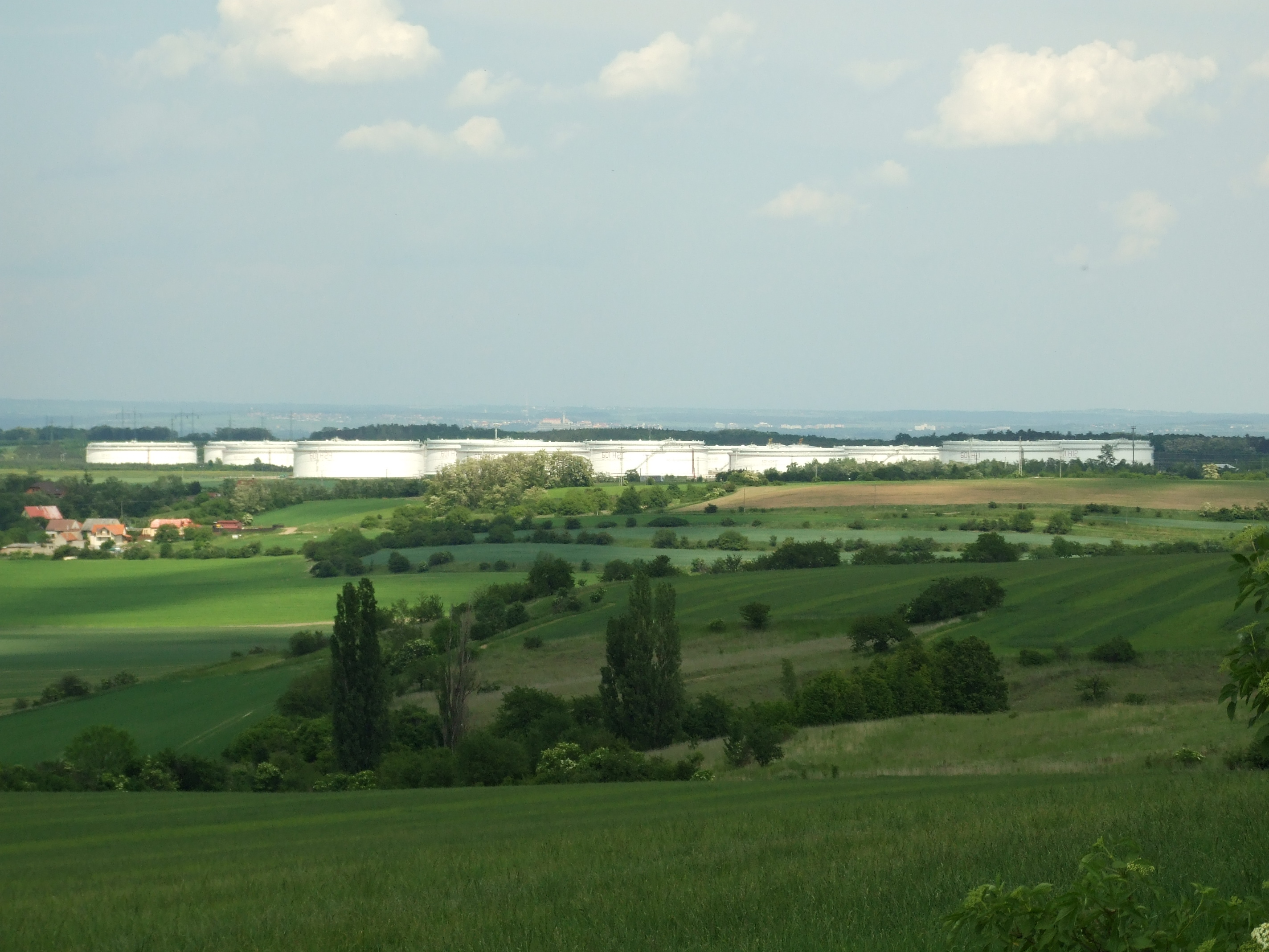 Nelahozeves central oil deposit seen from distance (near Velvary) in Central Bohemian region, CZhelp